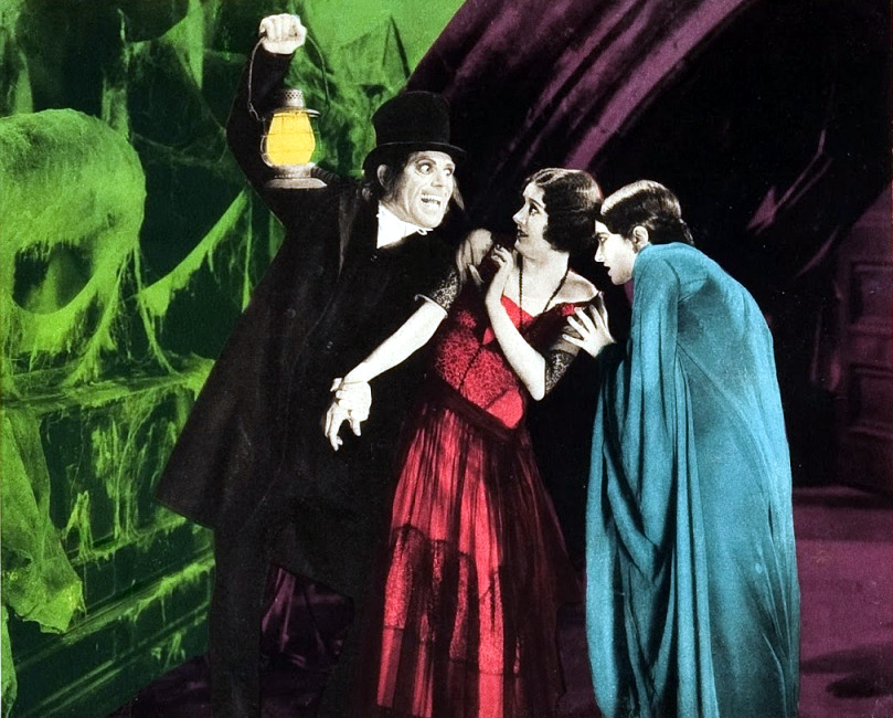 Cropped and edited lobby card for the American mystery film London After Midnight (1927). This image is assumed to be in the public domain as no copyright notice was attached to the original, see details below: There are no copyright marks on the card. At lower right is Made in USA.